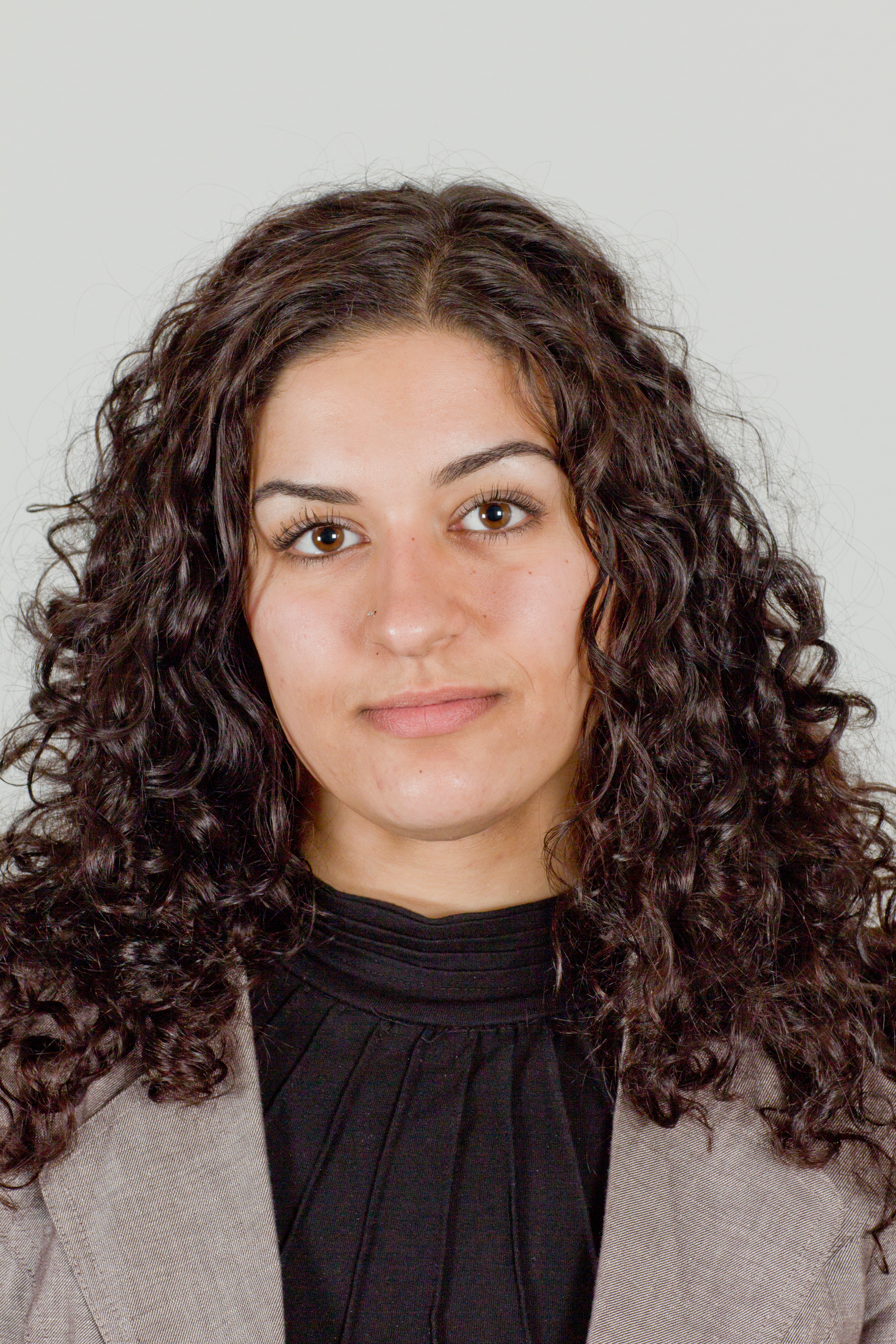 This picture was created as part of a cooperation with the Hamburg Parliament.Many Members of the Hamburg Parliament have been photographed on 22 and 23 June 2011 to provide images for Wikimedia's projects. Personality rights warningAlthough this work is freely licensed or in the public domain, the person(s) shown may have rights that legally restrict certain re-uses unless those depicted consent to such uses. In these cases, a model release or other evidence of consent could protect you from infringement claims.